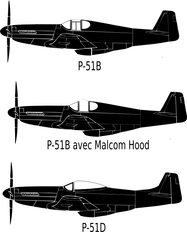 evolution of P-51 Mustang